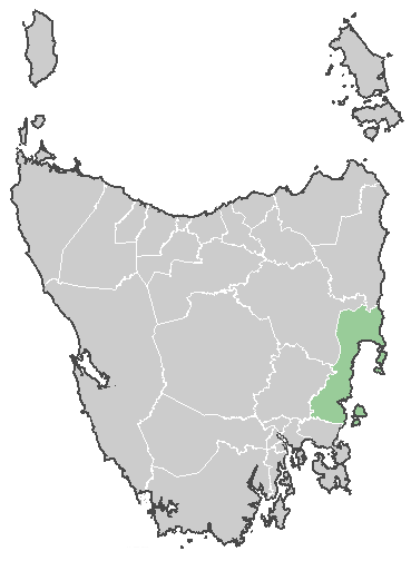 Municipality of Glamorgan Tasmania